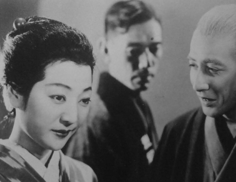 Sachiko Chiba, Kō Mihashi and Yō Shiomi in Uwasa no musume (1935)